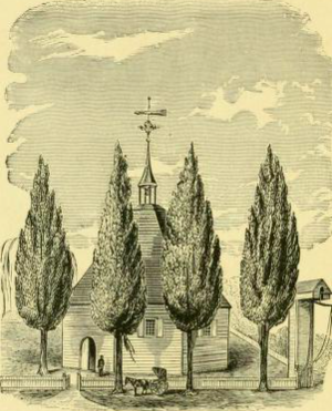 First Reformed Dutch Church of Long Island, New York (1716-1833)